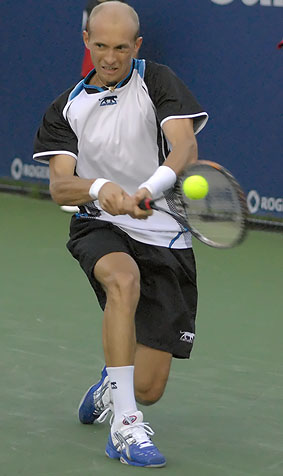 Nikolay Davydenko playing at the 2008 Rogers Cup